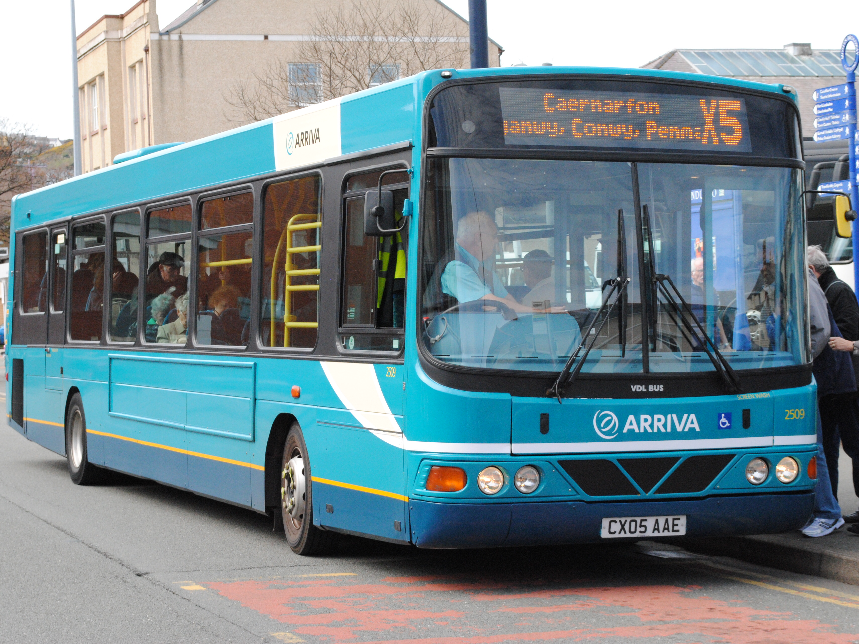 VDL SB200CS Wright Commander. recently transferred from Wrexham - Berse Road, Caego depot